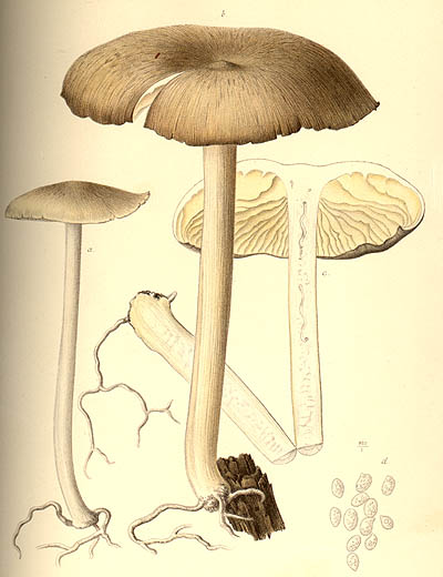 drawn illustration of Megacollybia platyphylla by Jean Louis Émile Boudier